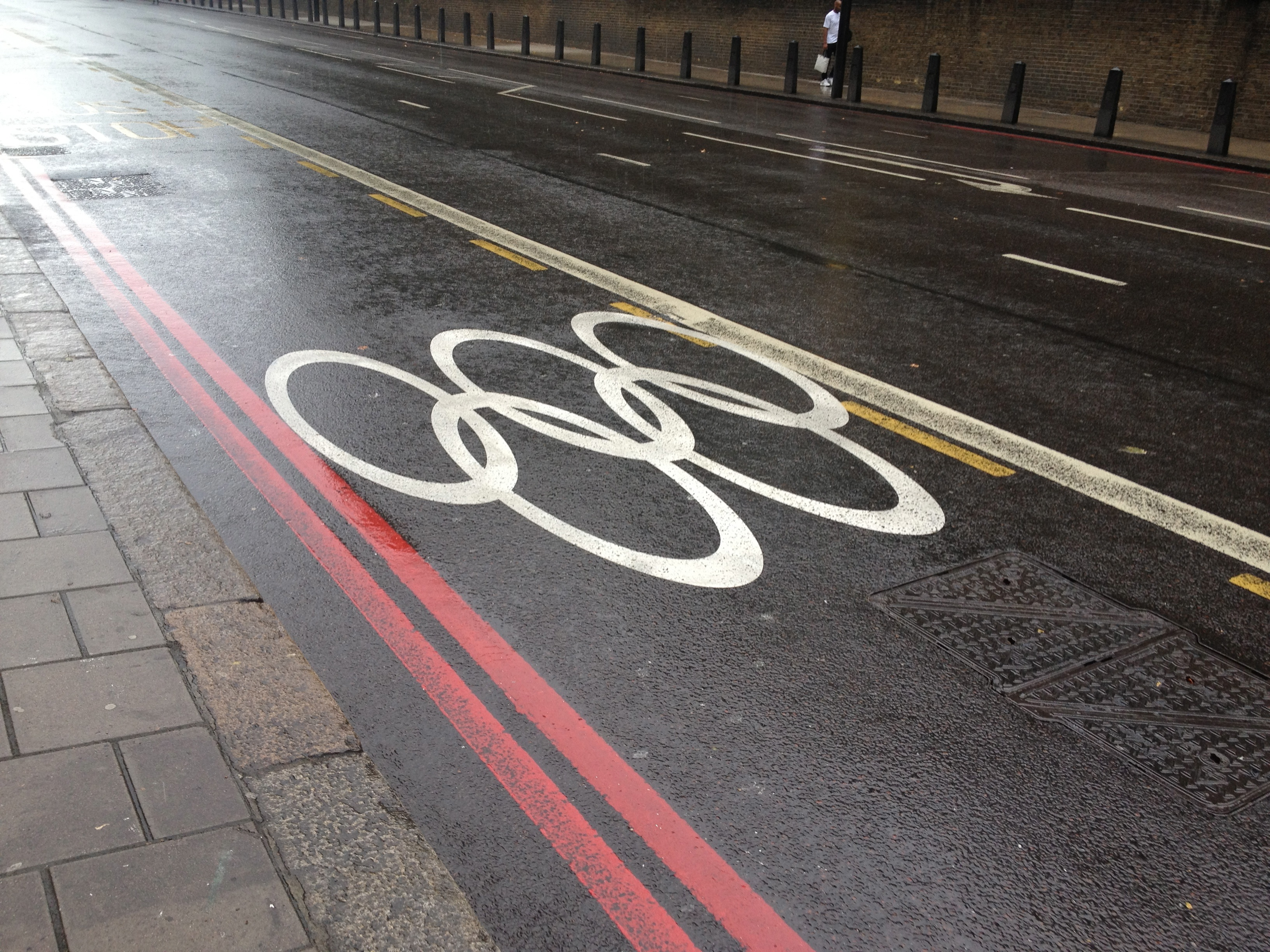 Olympic rings painted on a street in London during the 2012 Summer Olympics, indicating that the lane was reserved for the use of Olympic athletes and officials only.